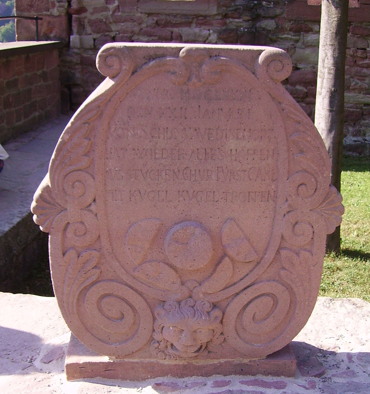 part of Heidelberg castle (Heidelberger Schloss)